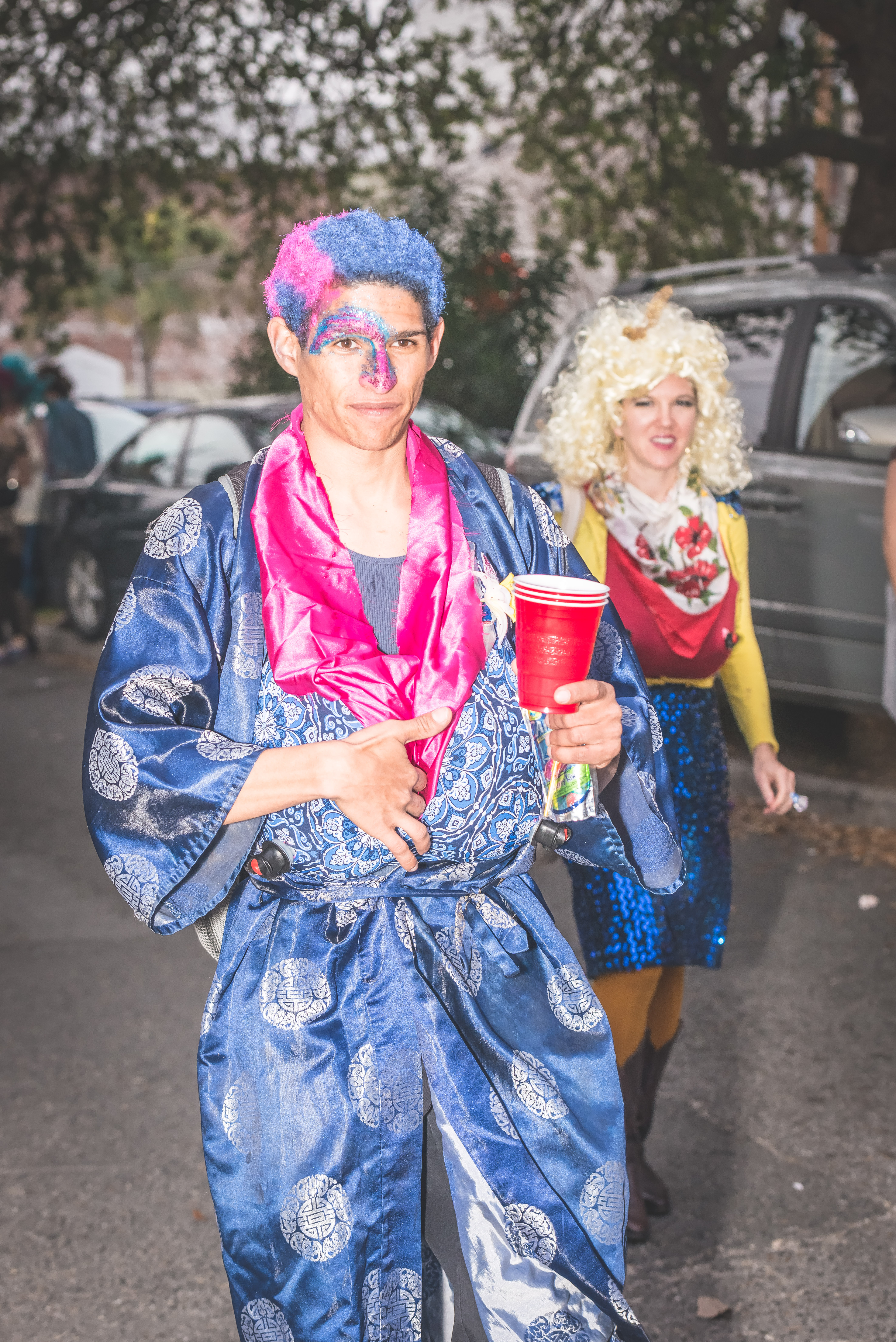 Box of Wine Paraders, New Orleans Mardi Gras 2015